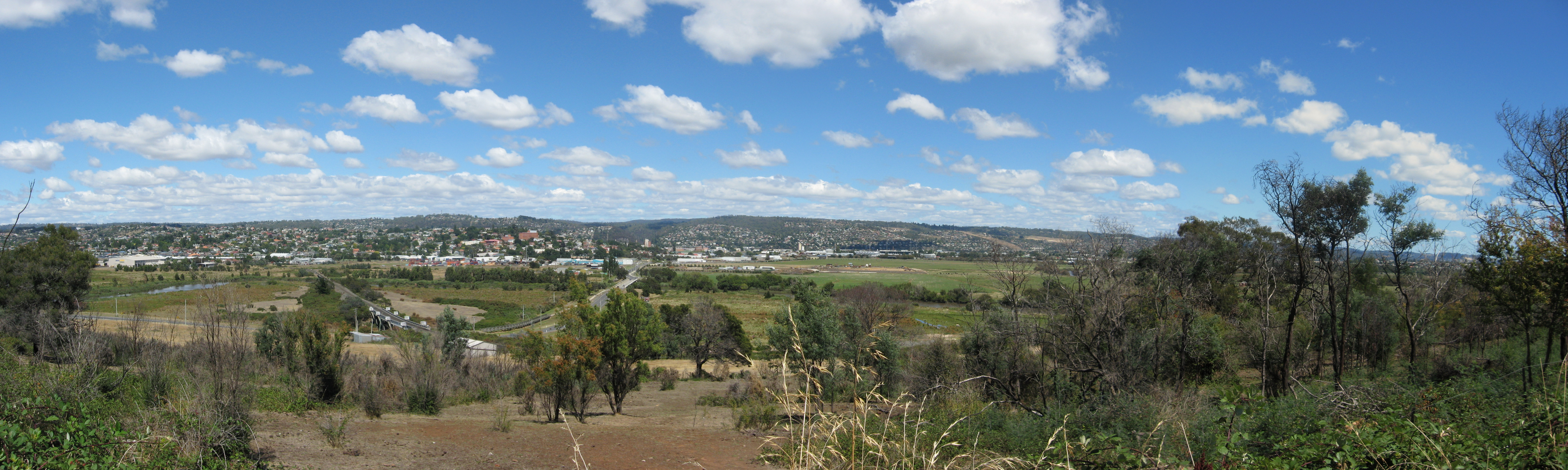 Launceston from Ravenswood